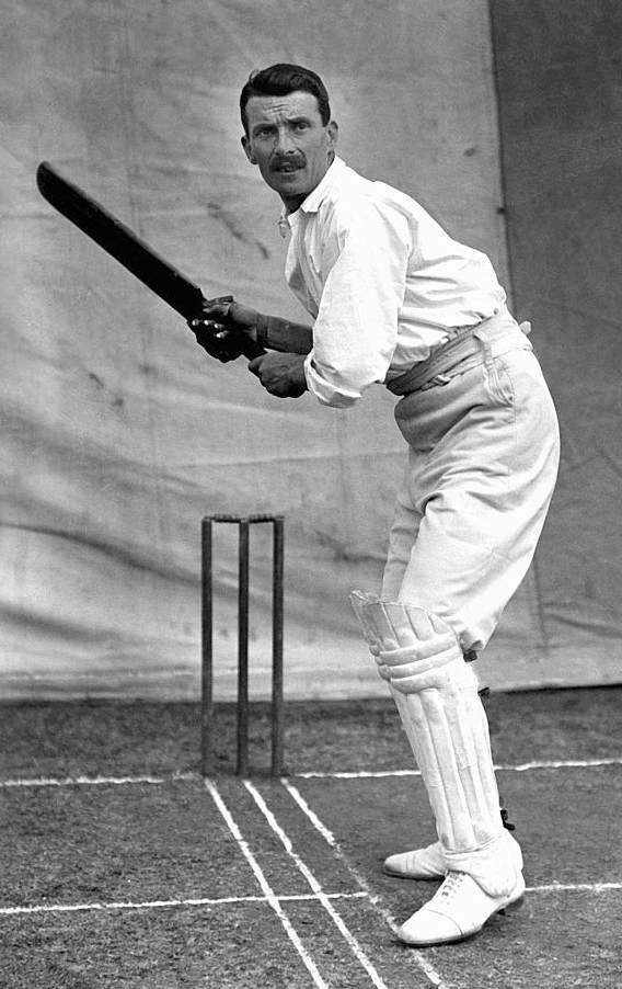 James Iremonger, Nottinghamshire, circa 1905.